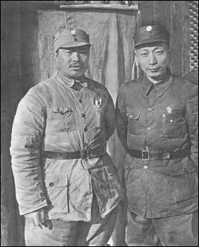 1939 He Long and Nie Ronzhen. 1939年1月贺龙司令员和聂荣臻司令员在晋察冀阜平城合影